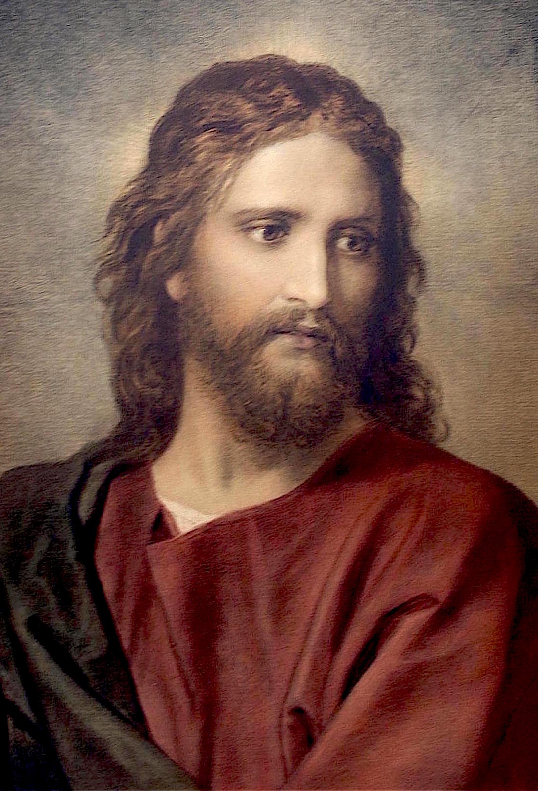 Representation of Jesus Christ, extracted from the painting "Christ And The Rich Young Ruler" by Hoffmann.